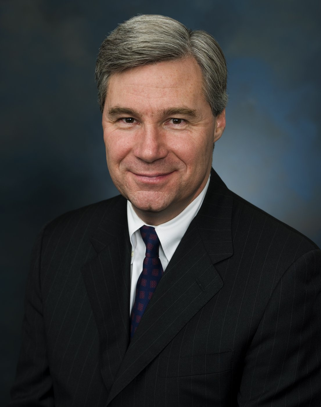 Official portrait of Senator Sheldon Whitehouse from Rhode Island.